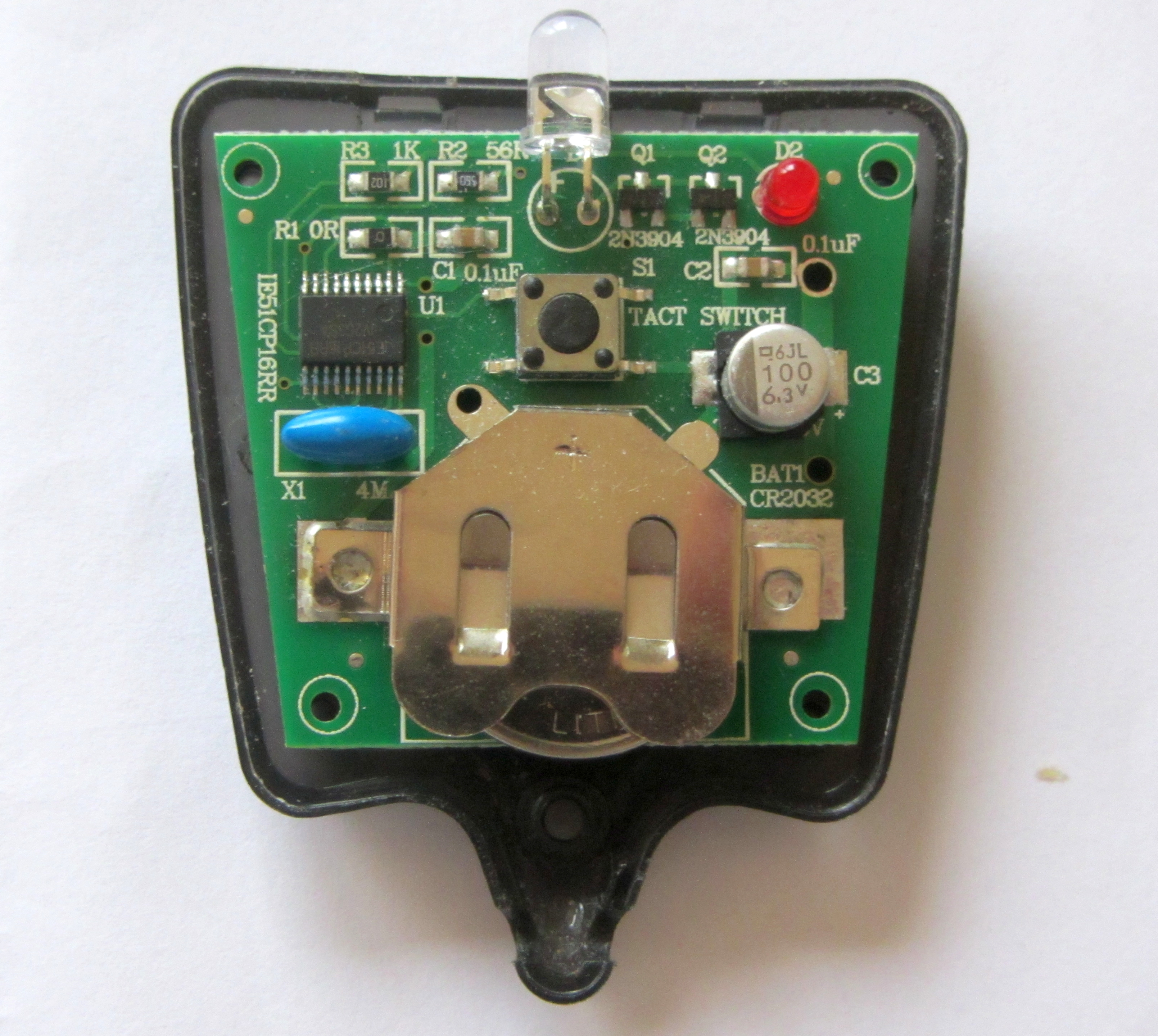 A TV-B-Gone remote to turn off TVs, opened